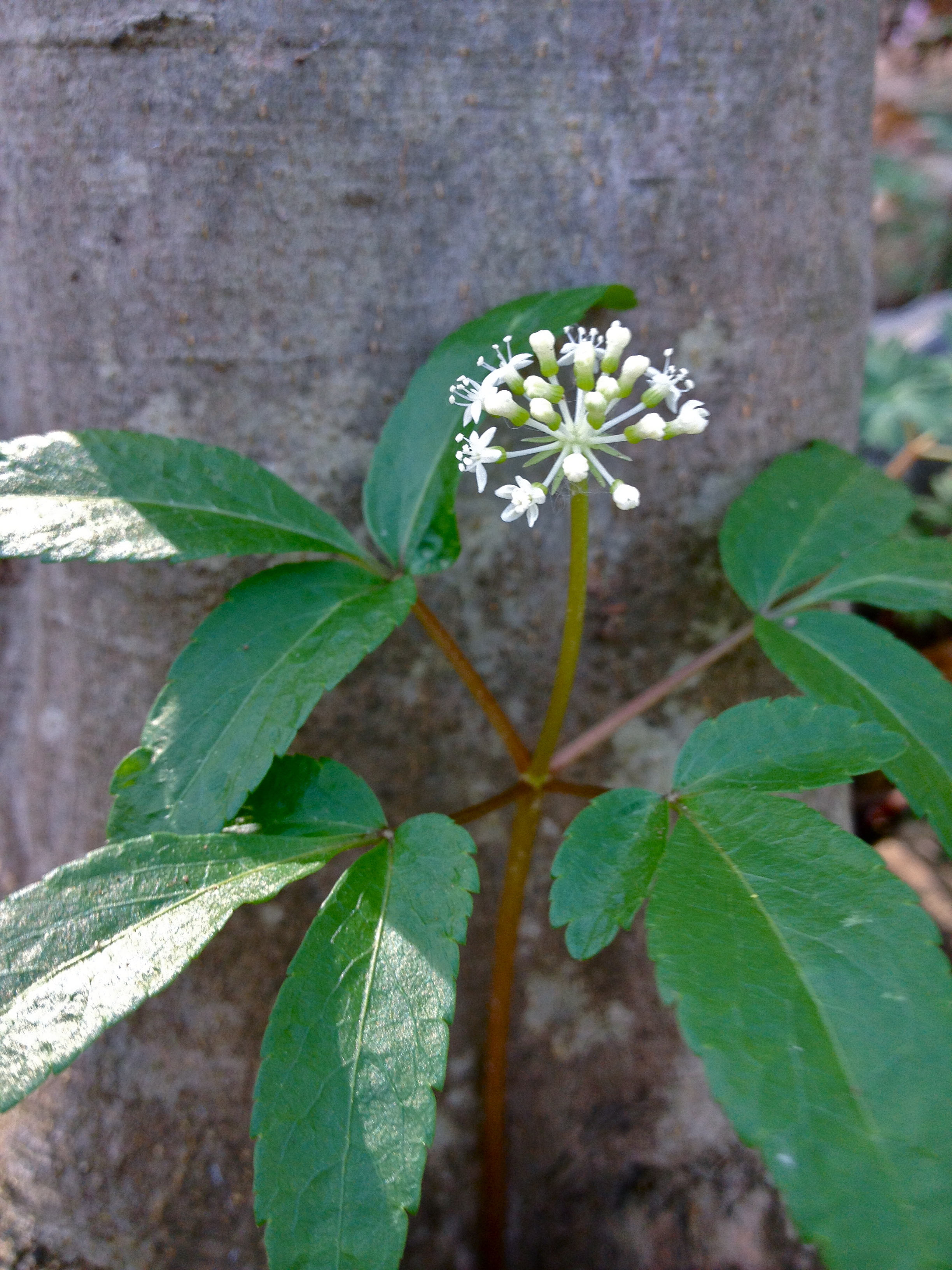 Photo of Panax trifolius in flower. This is a native plant growing wild in Claude Moore Colonial Farm Park at Turkey Run Farm, near the Potomac River in Fairfax County, Virginia. This species is a member of the Araliaceae family.